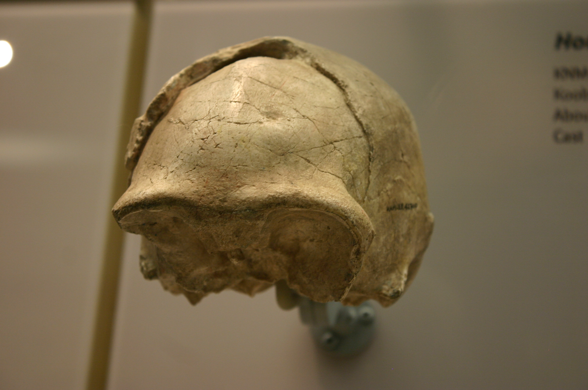 Taken at the David H. Koch Hall of Human Origins at the Smithsonian Natural History Museum.